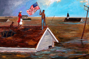 Surviving Katrina, 24x36, original, 2005 Art of Ted Ellis